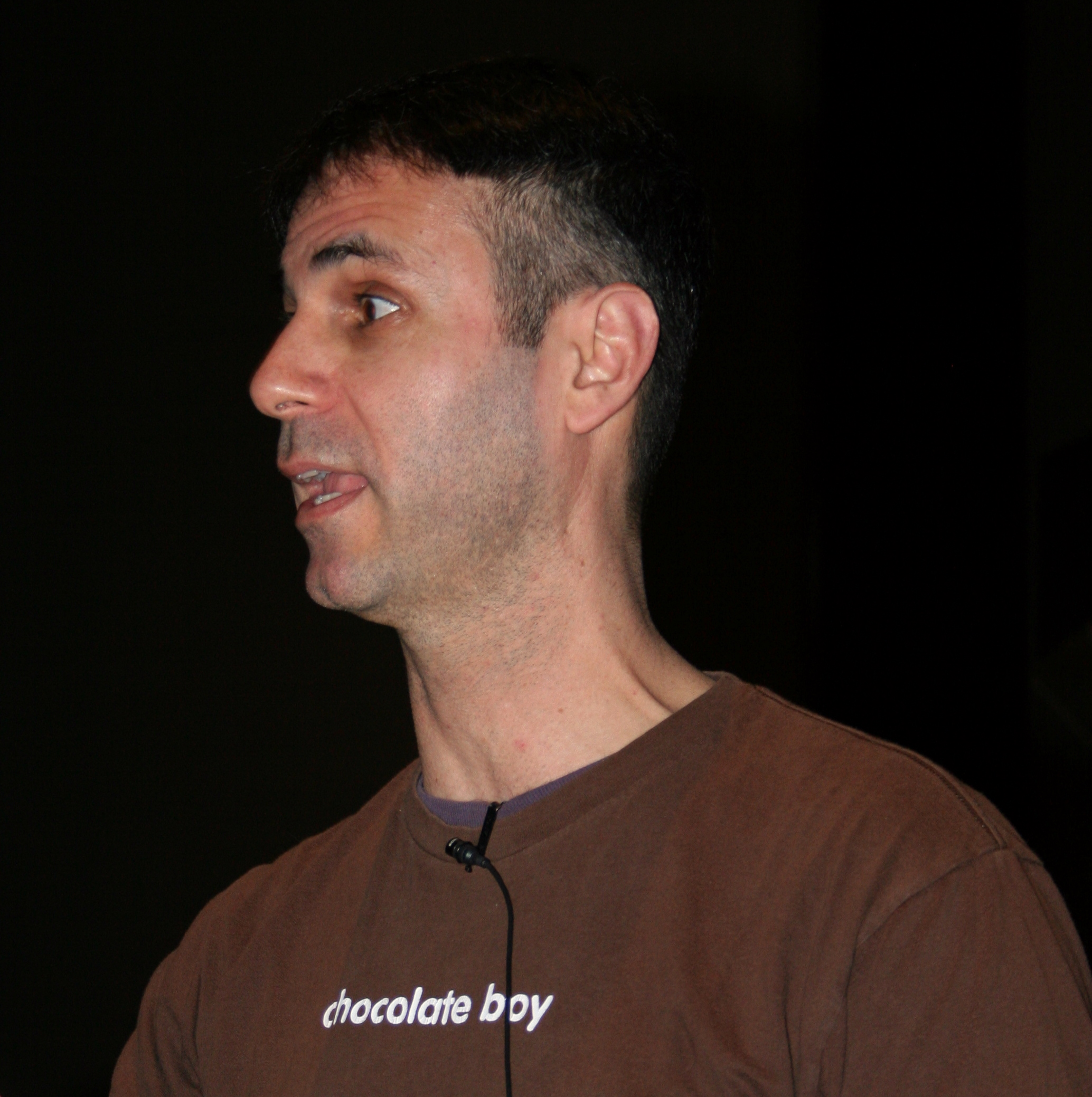 Writer Steve Almond speaking at Mayo High School in Rochester, Minnesota.